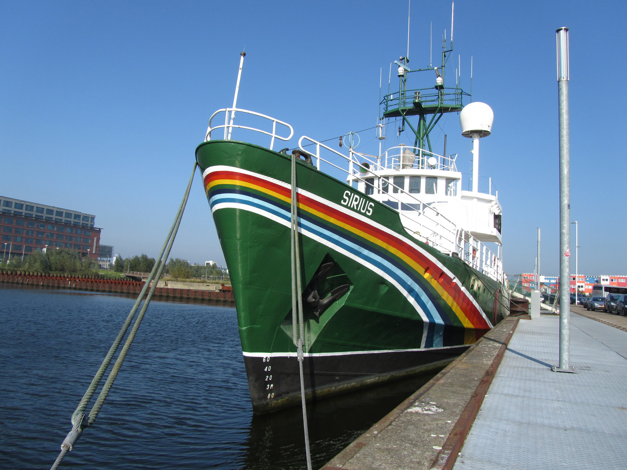 The former Greenpeace ship Sirius at NDSM-Werf in Amsterdam.